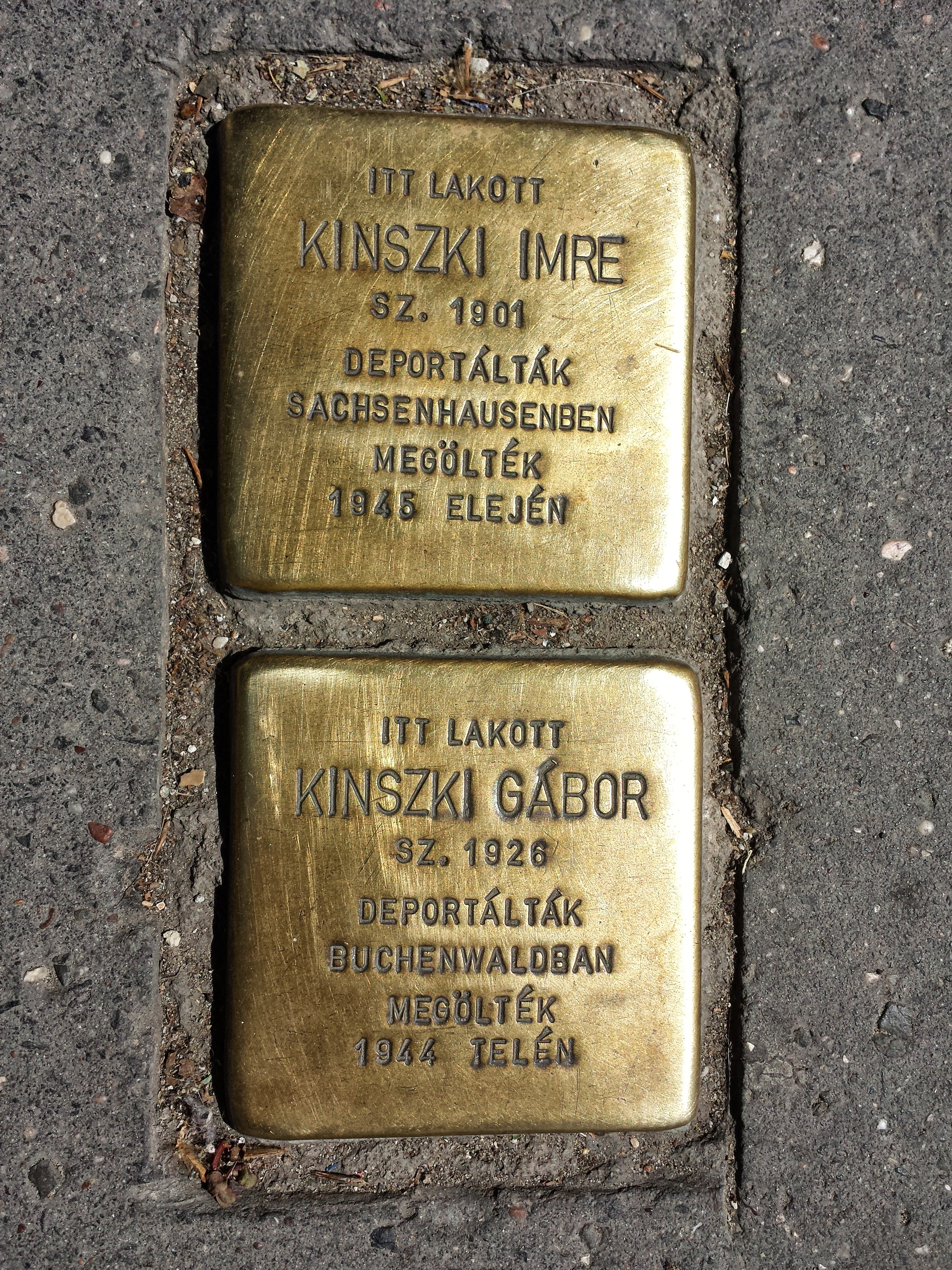 Stolperstein in memory of Mr. Imre Kinszki (1901-1945) and his son, Gábor Kinszki, at the entrance of their former domicile. (Budapest, District XIV, Róna Street Nr 121).